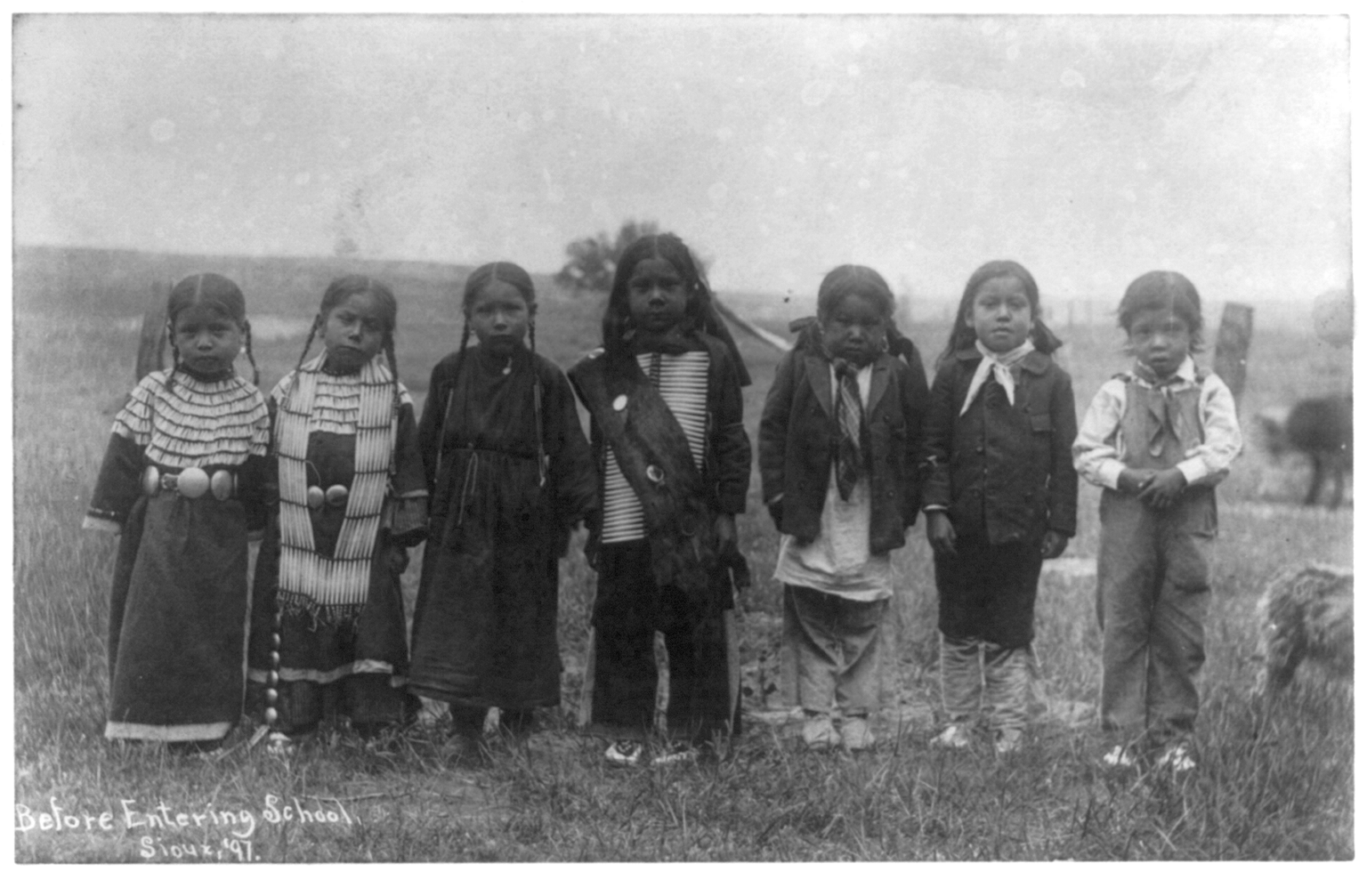 Hampton Institute, Hampton, Va. - before entering school - seven Indian children of uneducated parents